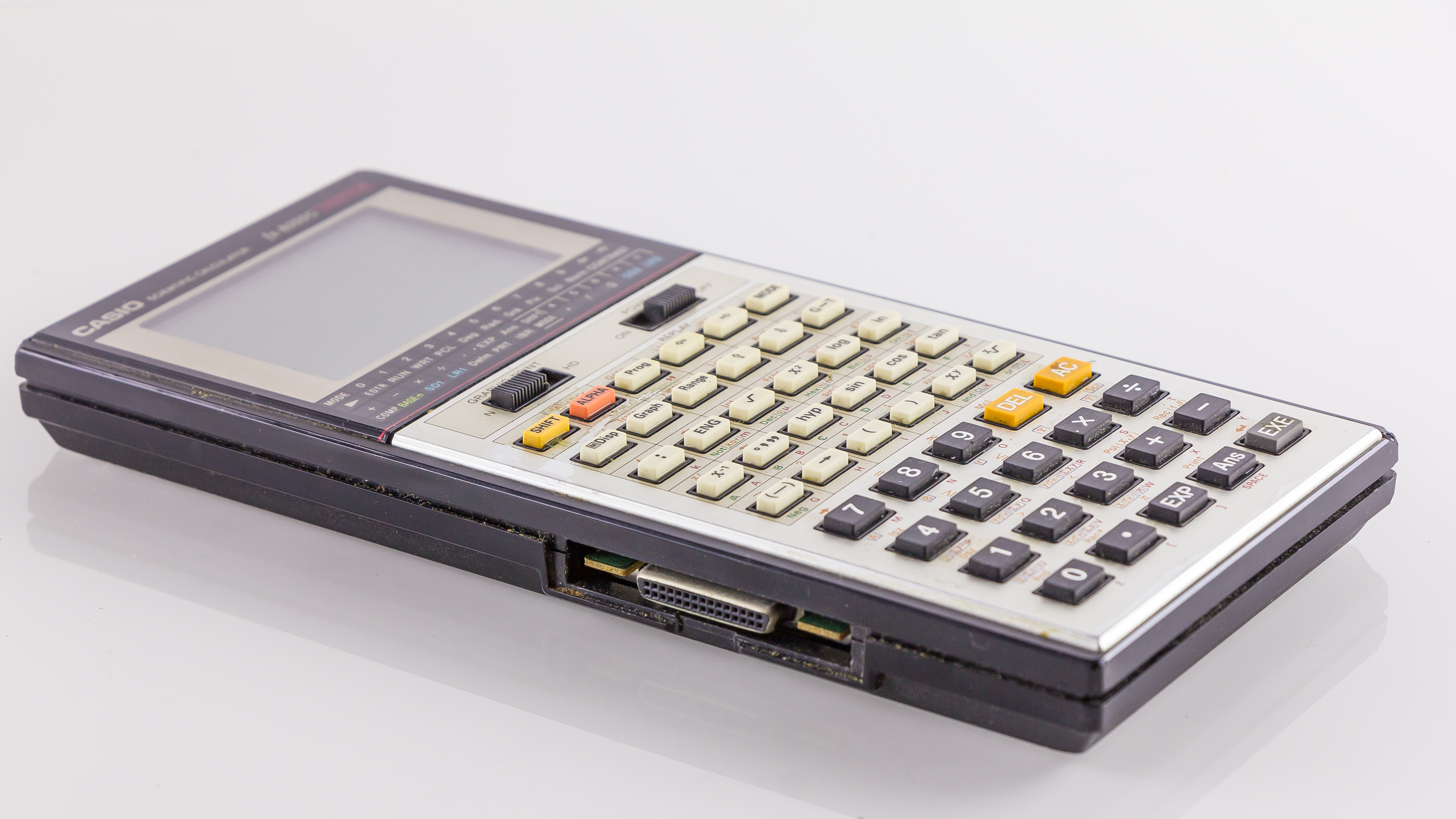 Casio fx-8000G - Graphing calculator